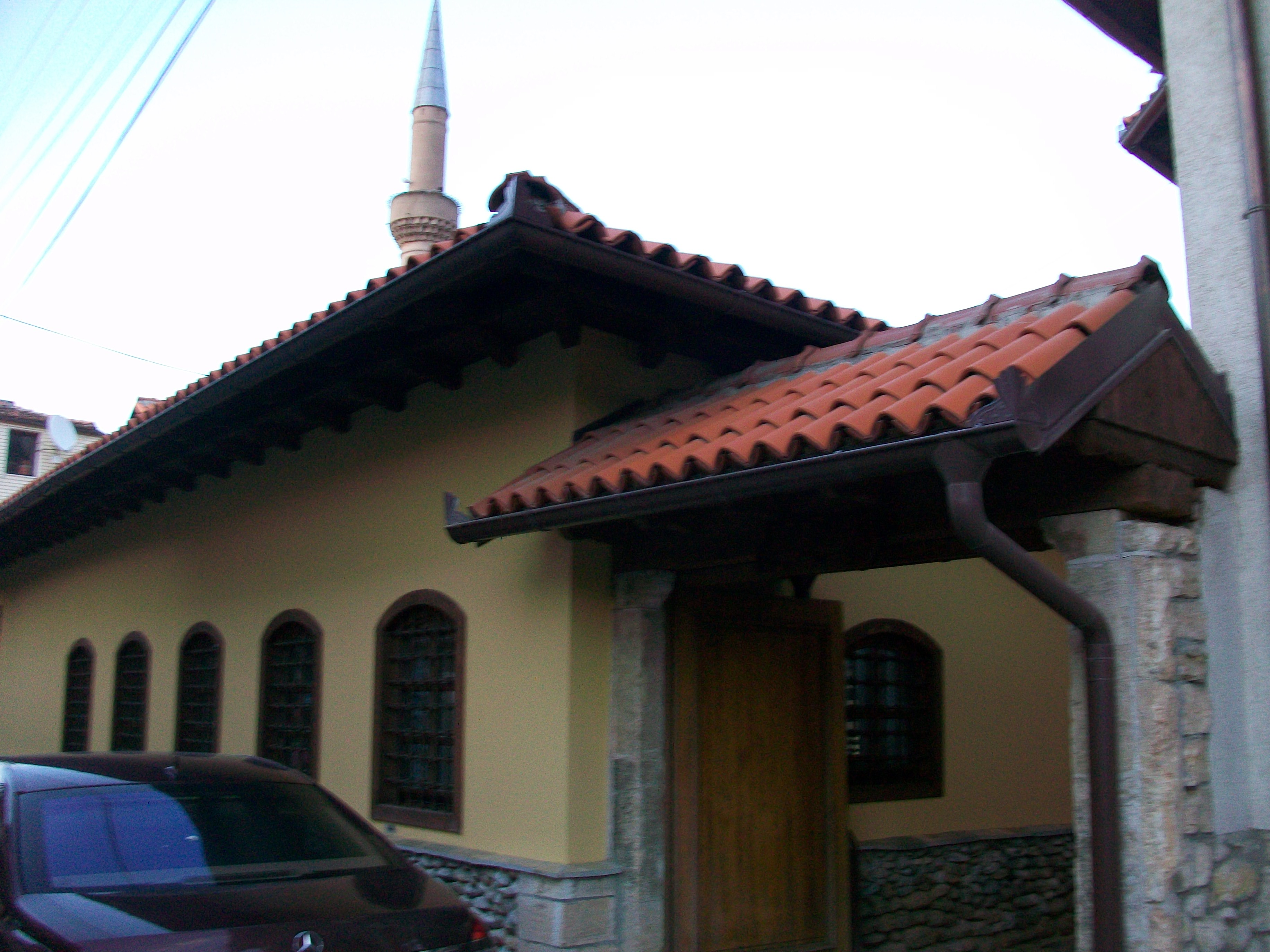 Pictures from Prizren Kosovo